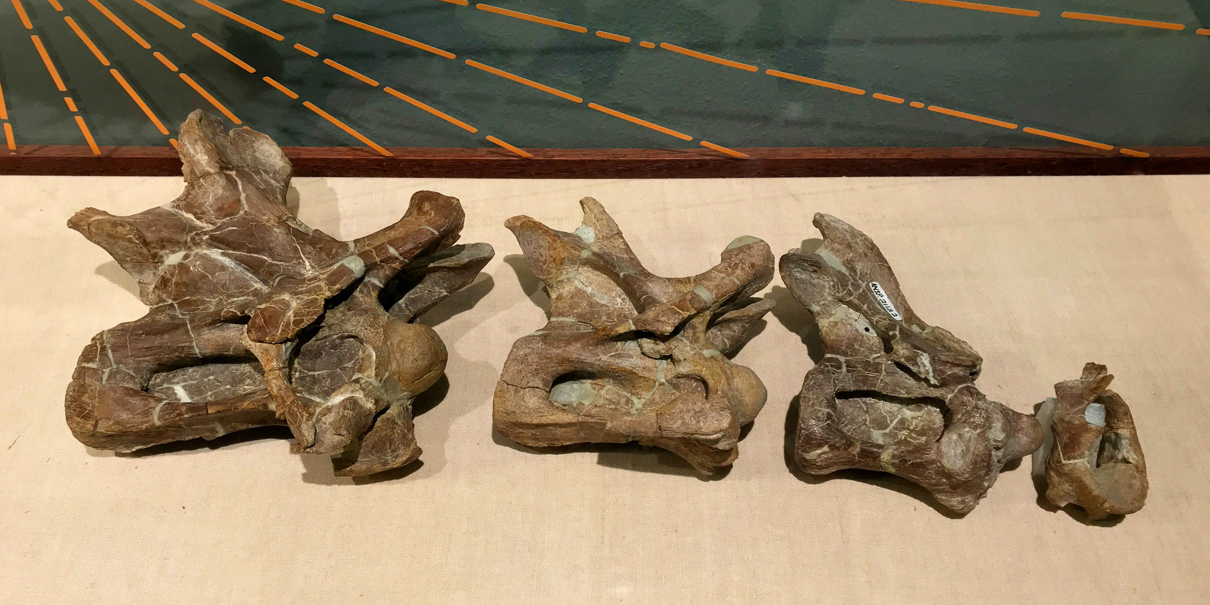 Suuwassea emiliae cervicals 1-4 in right lateral view, Academy of Natural Sciences in Philadelphia.